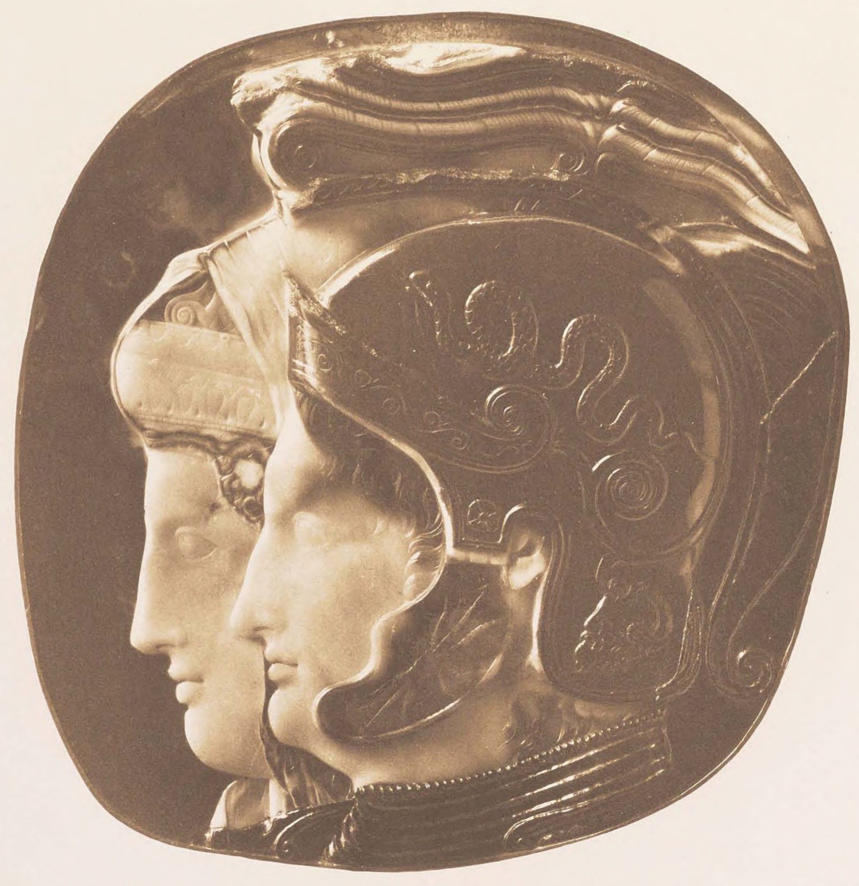 Ptolemy cameo, 115 x 113 mm, c. 278 BC, showing Ptolemaios II and his sister and wife Arsinoë II (date and identification is suject of ongoing discussion). The stone was a jewel on the shrine of the three magis in the Cologne Cathedral. After its theft in 1574, the stone went through numerous hands and finally arrived in the Kunsthistorisches Museum in Vienna.